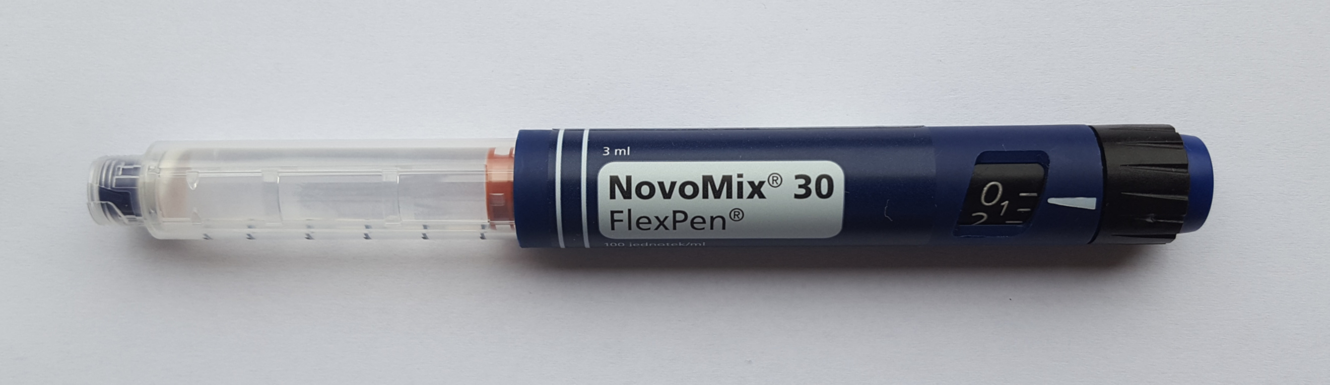 insulin analog 100 IU/1ml pen